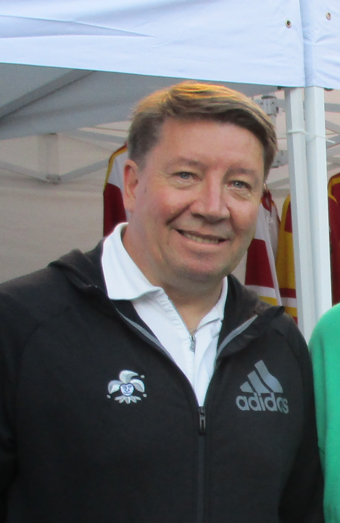 Ice hockey team Jokerit’s general manager Jari Kurri and the head coach Jukka Jalonen with Don Bigileone at the Three Smiths Statue in Helsinki, Finland on 30th of August 2016.